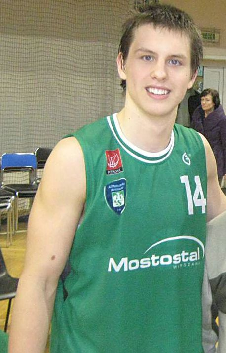 Mateusz Ponitka, polish basketball player